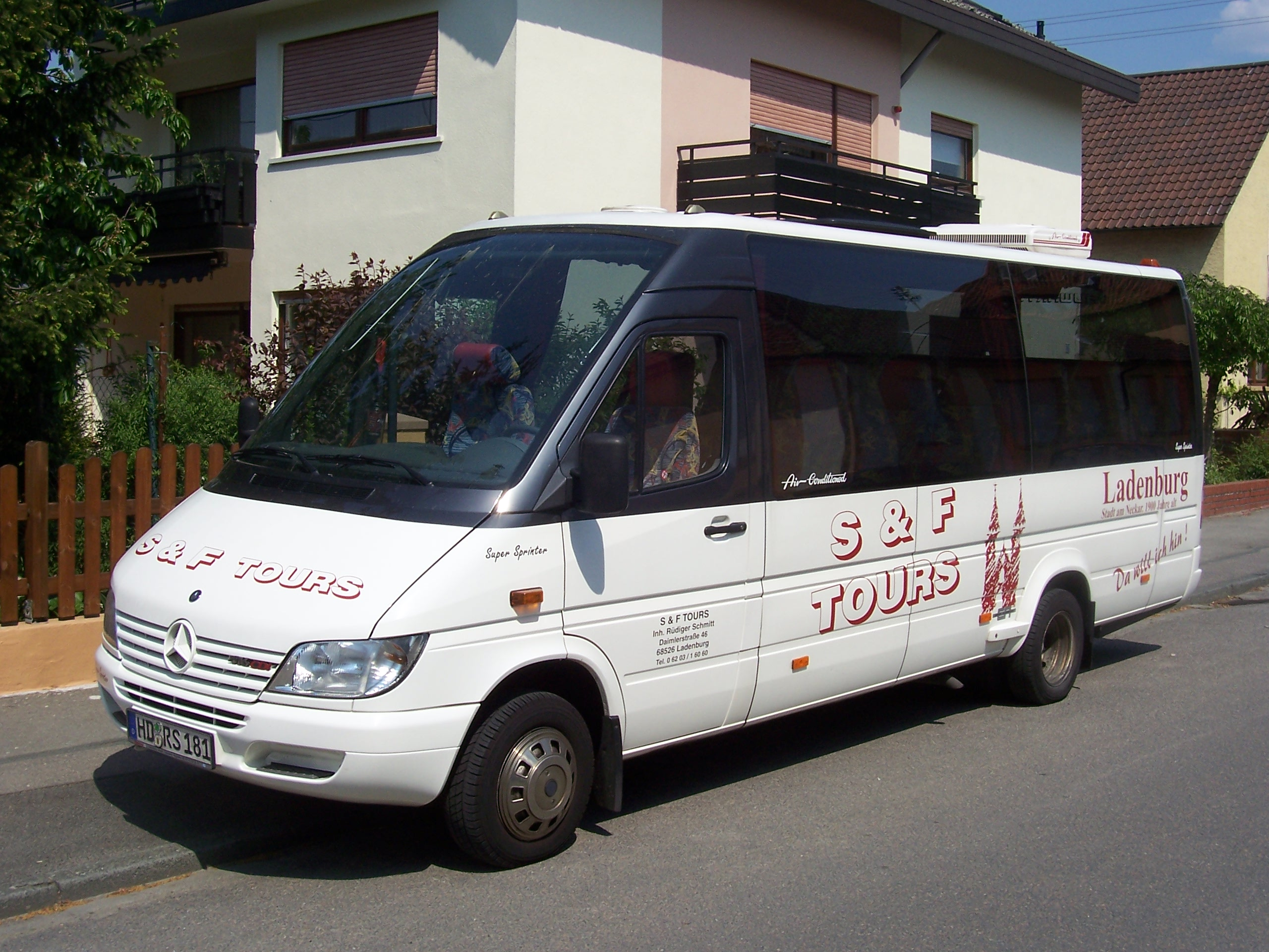 A Ernst Auwärter Super Sprinter Minibus build from a Mercedes-Benz Sprinter 416 CDI in Ladenburg, germany